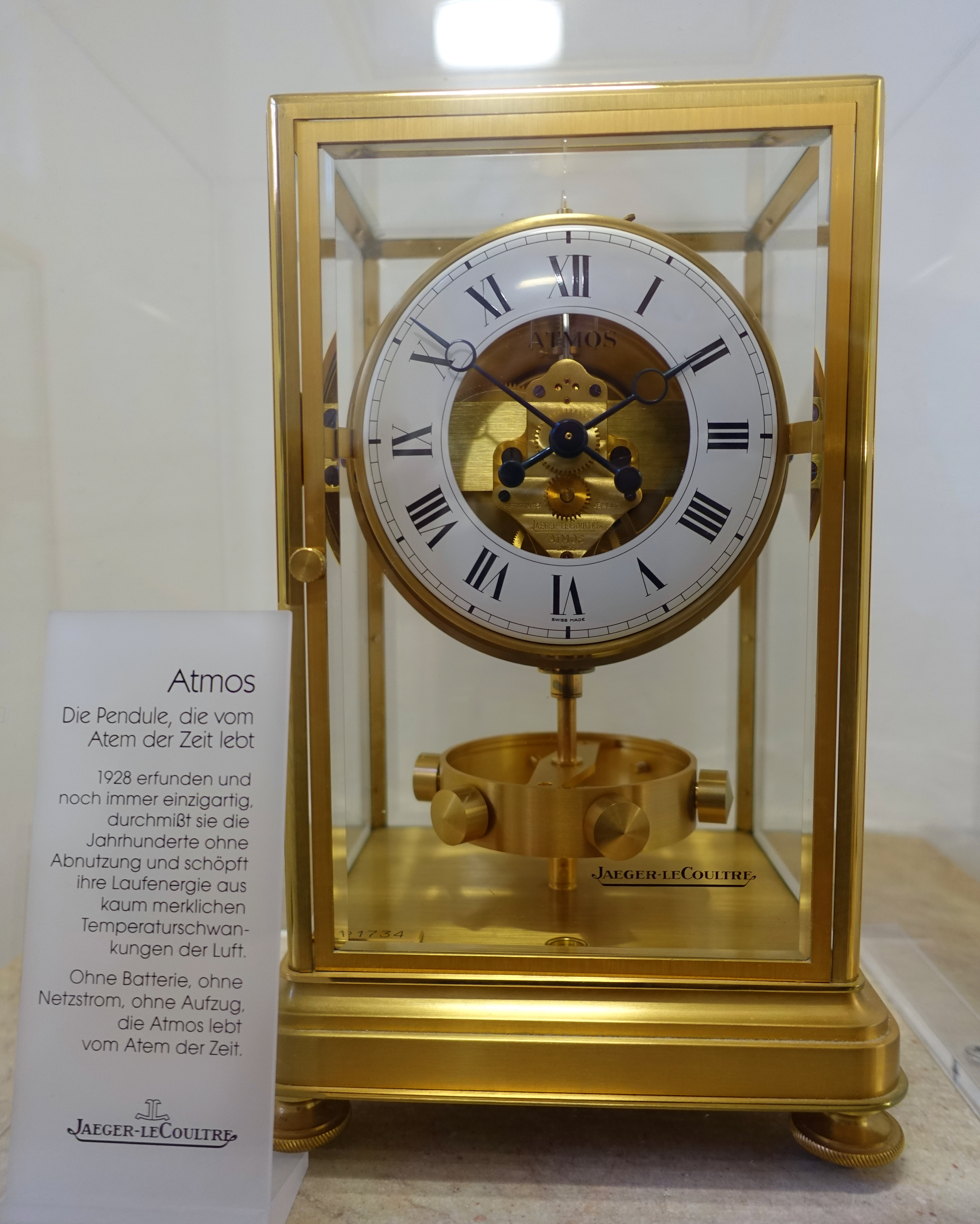 Exhibit in the Karl Gebhardt Horological Collection (Uhrenmuseum Karl Gebhardt), Gewerbemuseum - Nuremberg, Germany. As a utilitarian object, this exhibit is NOT subject to copyright laws. Instead it is subject to Industrial Design Rights; see Industrial Design Right for more information. If this object was ever covered by a design patent, that patent has expired, and thus this image is in the public domain.